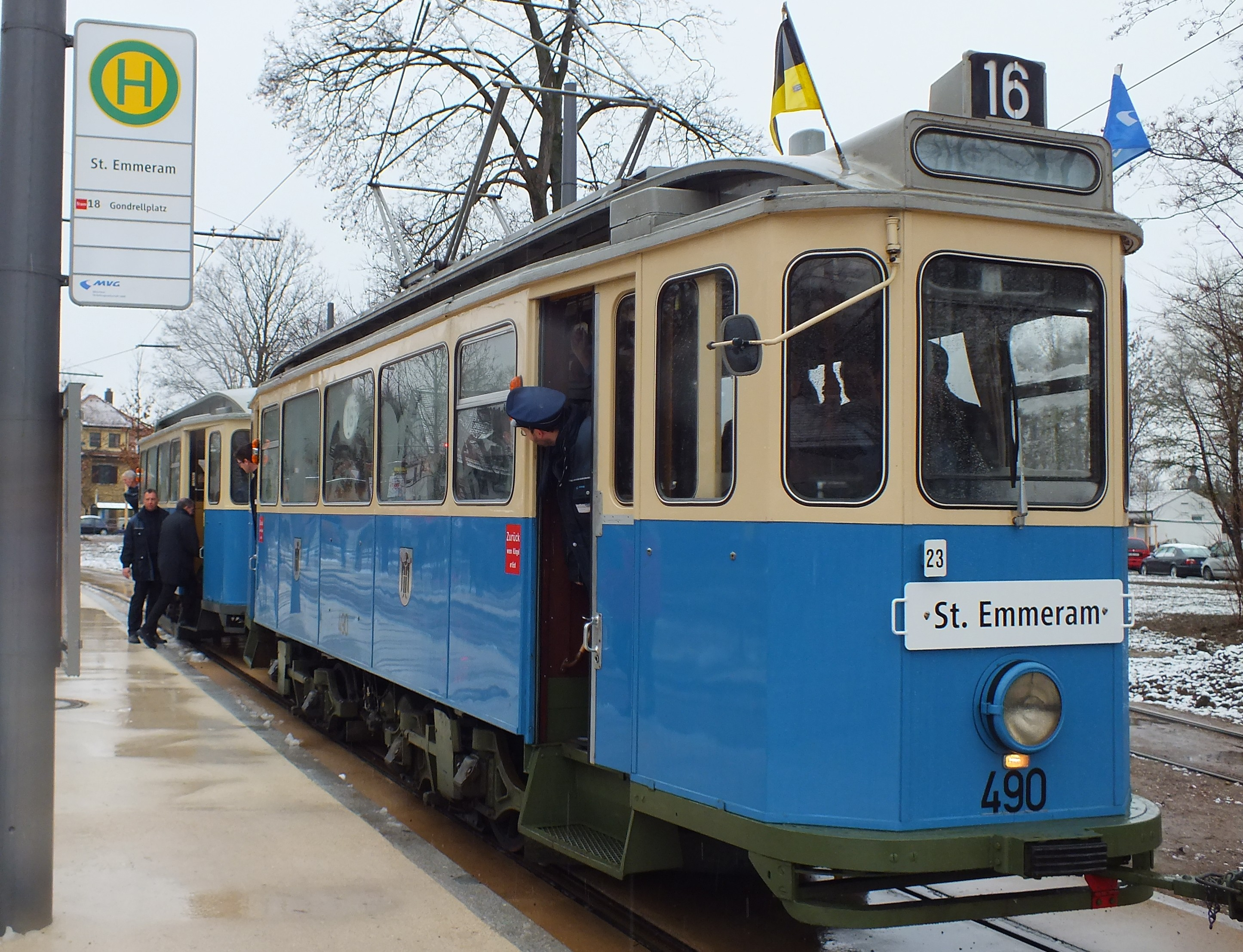 Munich tram D Stock, built in 1911 as C stock, heavily remodelled during the 1920s and renamed D Stock, once again modernised after World War 2, this particula tram car retired from regular service in 1972 after 61 years of service and is now Munich's 2nd oldest museum tramcar.Unknown münchner d-wagen, gebaut 1911 als c-wagen, stark umgebaut in den 1920er jahren und zum d-wagen umbenannt, nach dem 2. weltkrieg nochmals modernisiert, dieser wagen (nr. 490) ging 1972 nach 61 jahren im linieneinsatz außer dienst und ist der zweitälteste münchner museums-trambahnwagen.